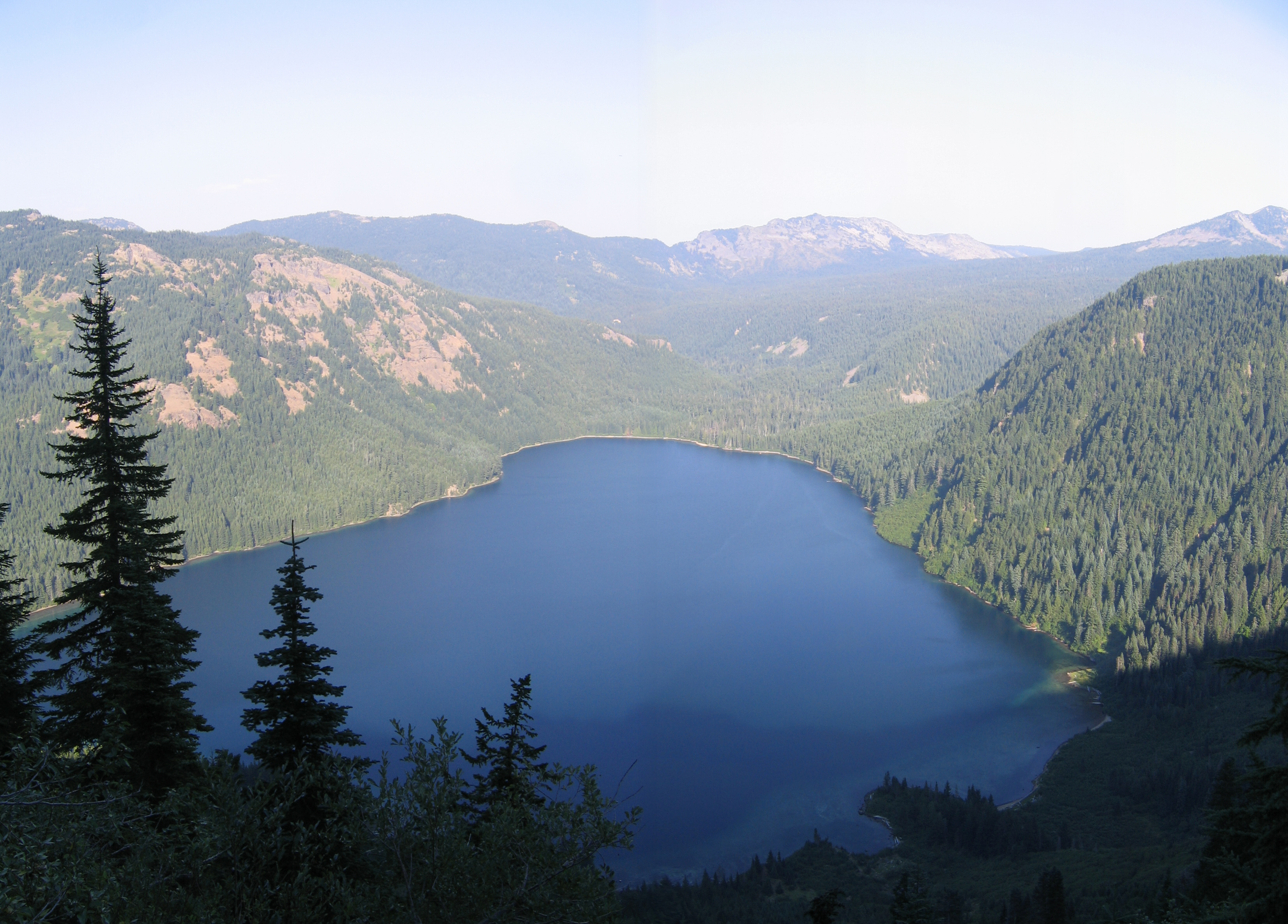 View of Walupt Lake from above on the southwest wall of the valley. Lakeview Mountain is visible on the upper right, Nannie Ridge appears on the left.